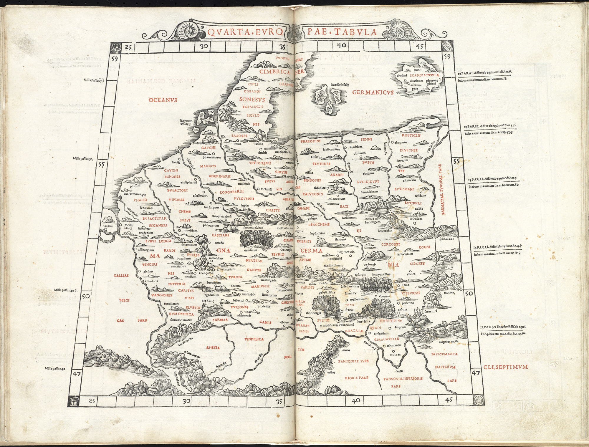 The 4th Map of Europe: Germany and Denmark Zoom into this map at . Author: Ptolemy, 2nd cent. Publisher: Pencio, Jacopo Date: 1511 Location: Germany Dimension: 34 x 39 cm. Scale: [ca. 1:4,400,000] Call Number: G1005 .P7 1511